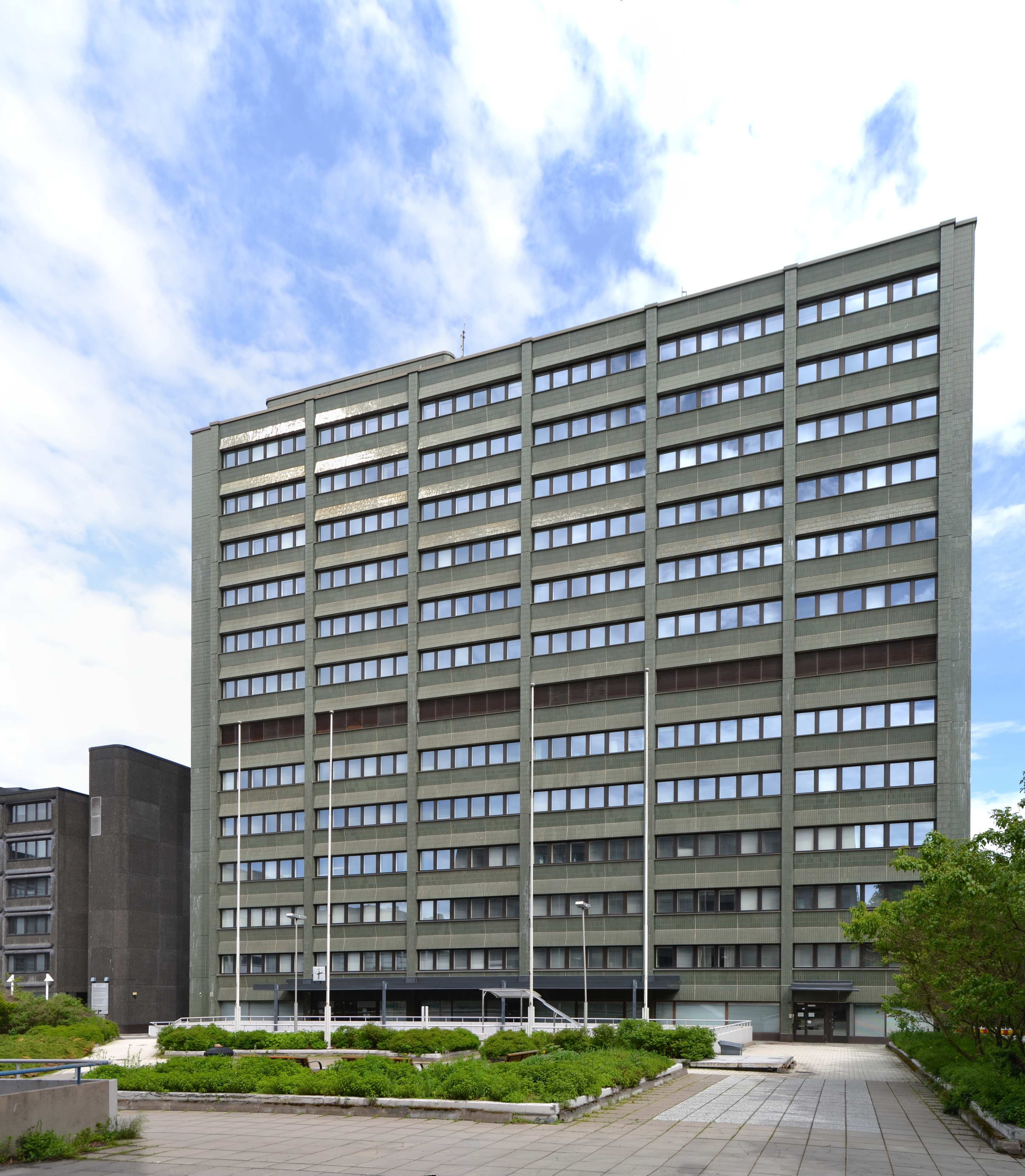 Järjestötalo I high-rise in Pasila, Helsinki